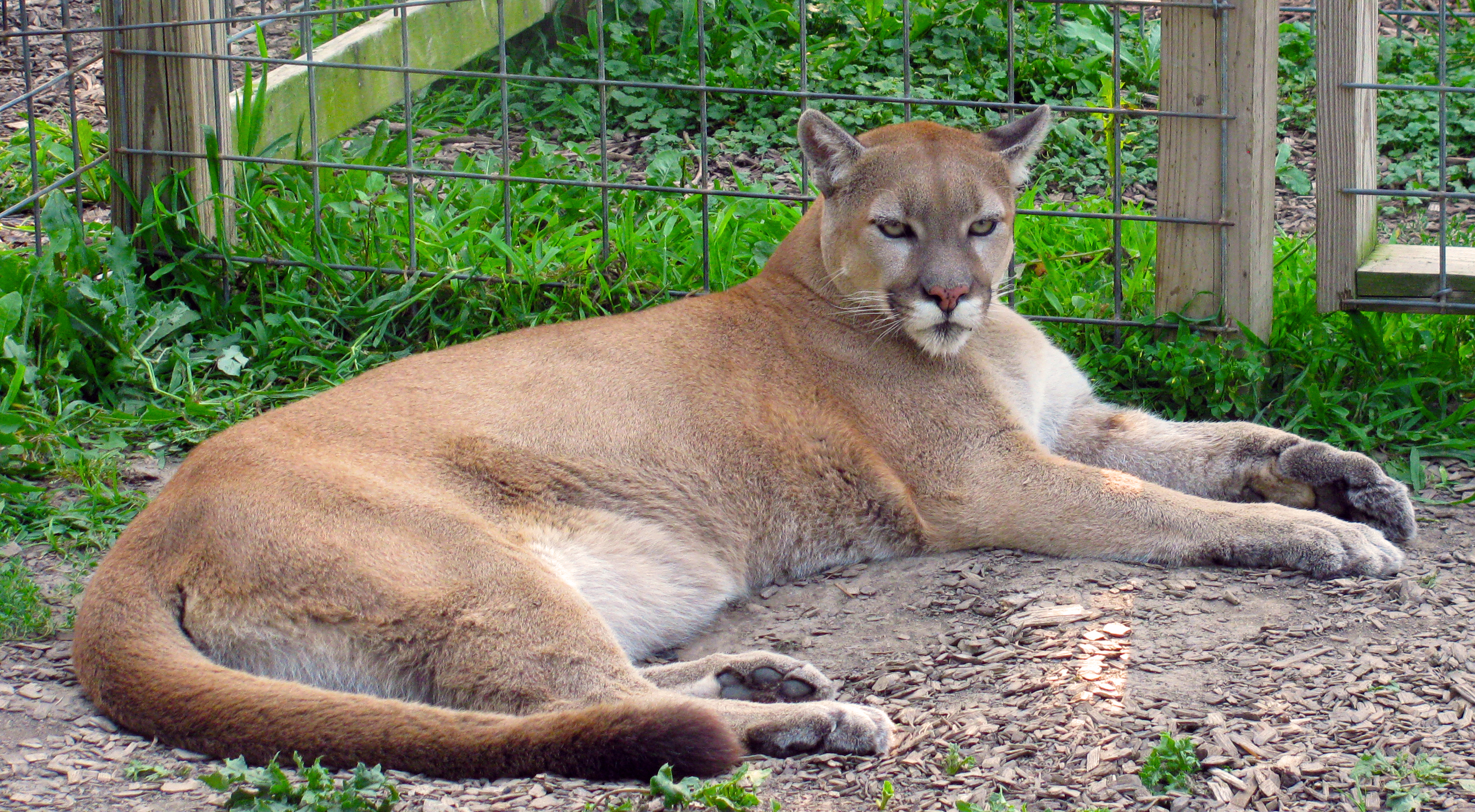 Spent some in August at the Butternut Farm Wildcat Sanctuary & Education Center to discuss sanctuaries and private ownership of exotic cats